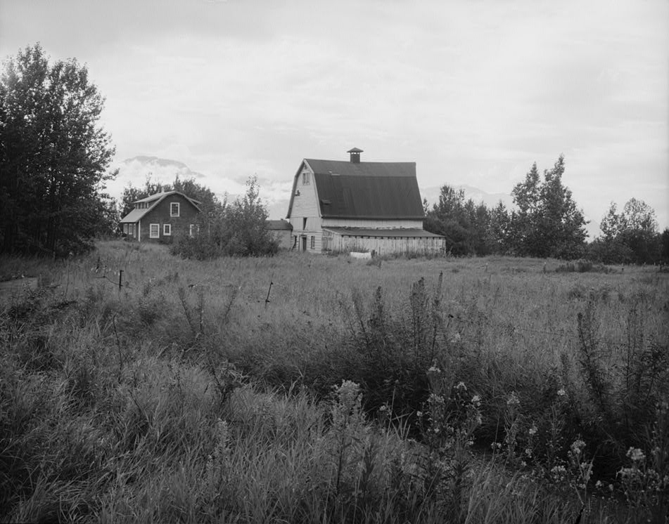 The house and barn of the Bailey Colony Farm, a farm located at the intersection of the Glenn Highway and Marsh Road, near the city of Palmer in the Matanuska-Susitna Borough of the U.S. state of Alaska. Built in 1935, the farm was added to the National Register of Historic Places on 21 June 1991.